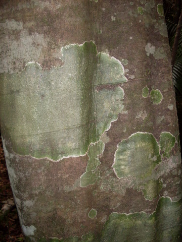 Guioa semiglauca: bark of a 43 cm diameter at breast height, Hacking River, Royal National Park, Australia